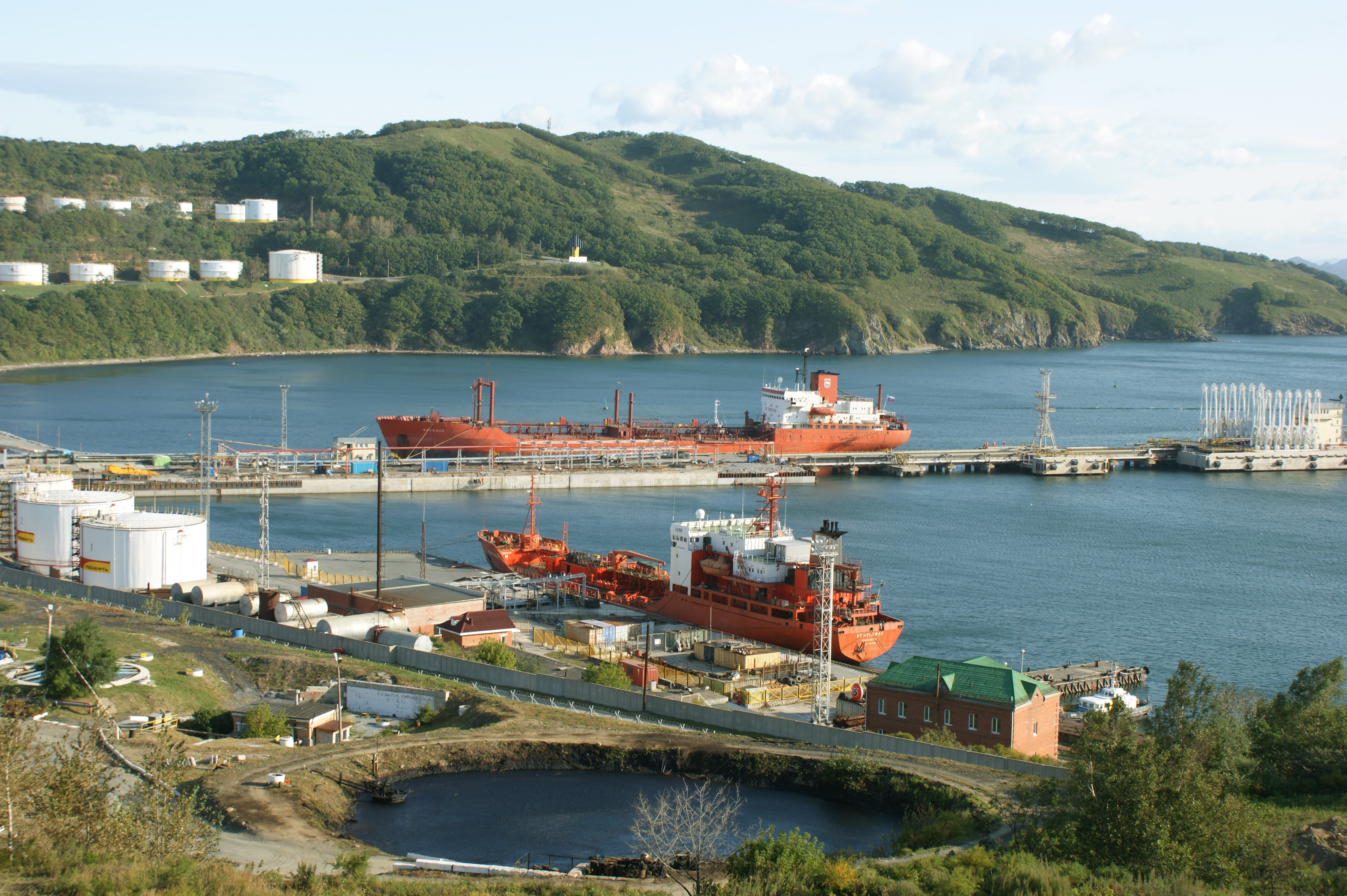 Port in Nakhodka Bay of Sea of Japan, Russia